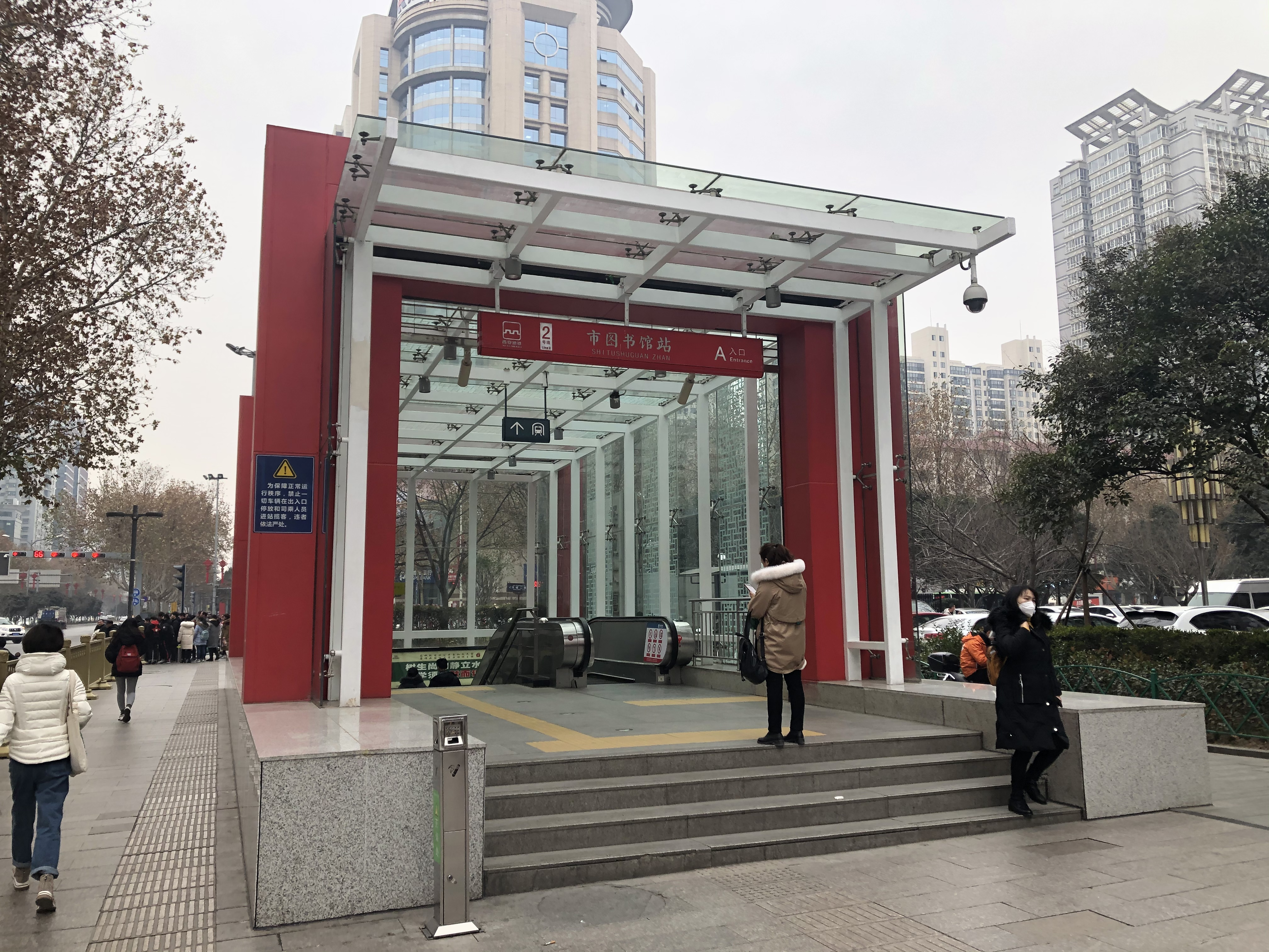 station entrance